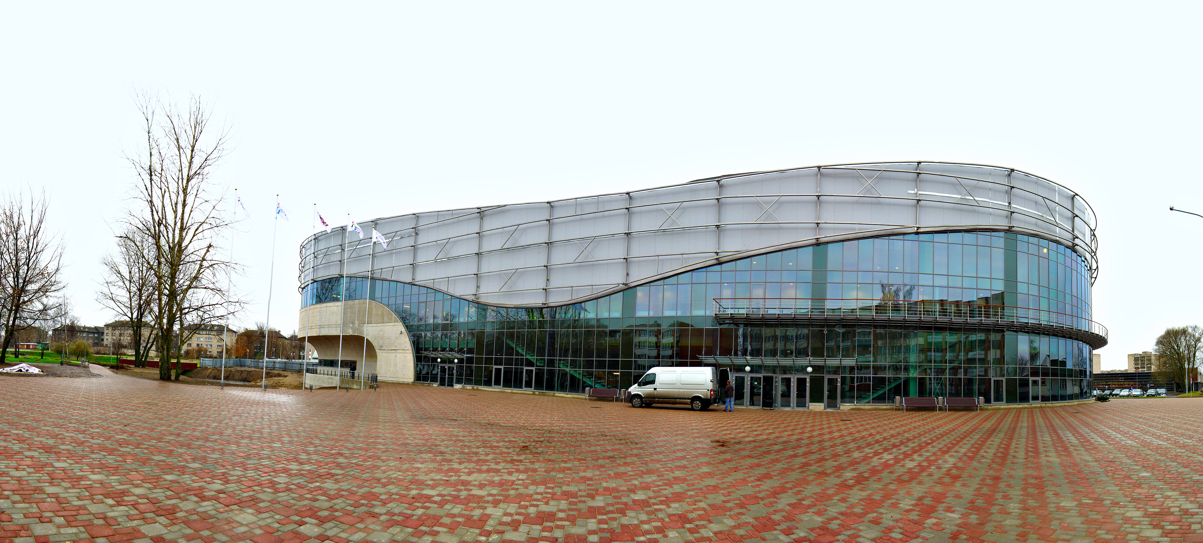 Daugavpils Multifunctional Sports Complex